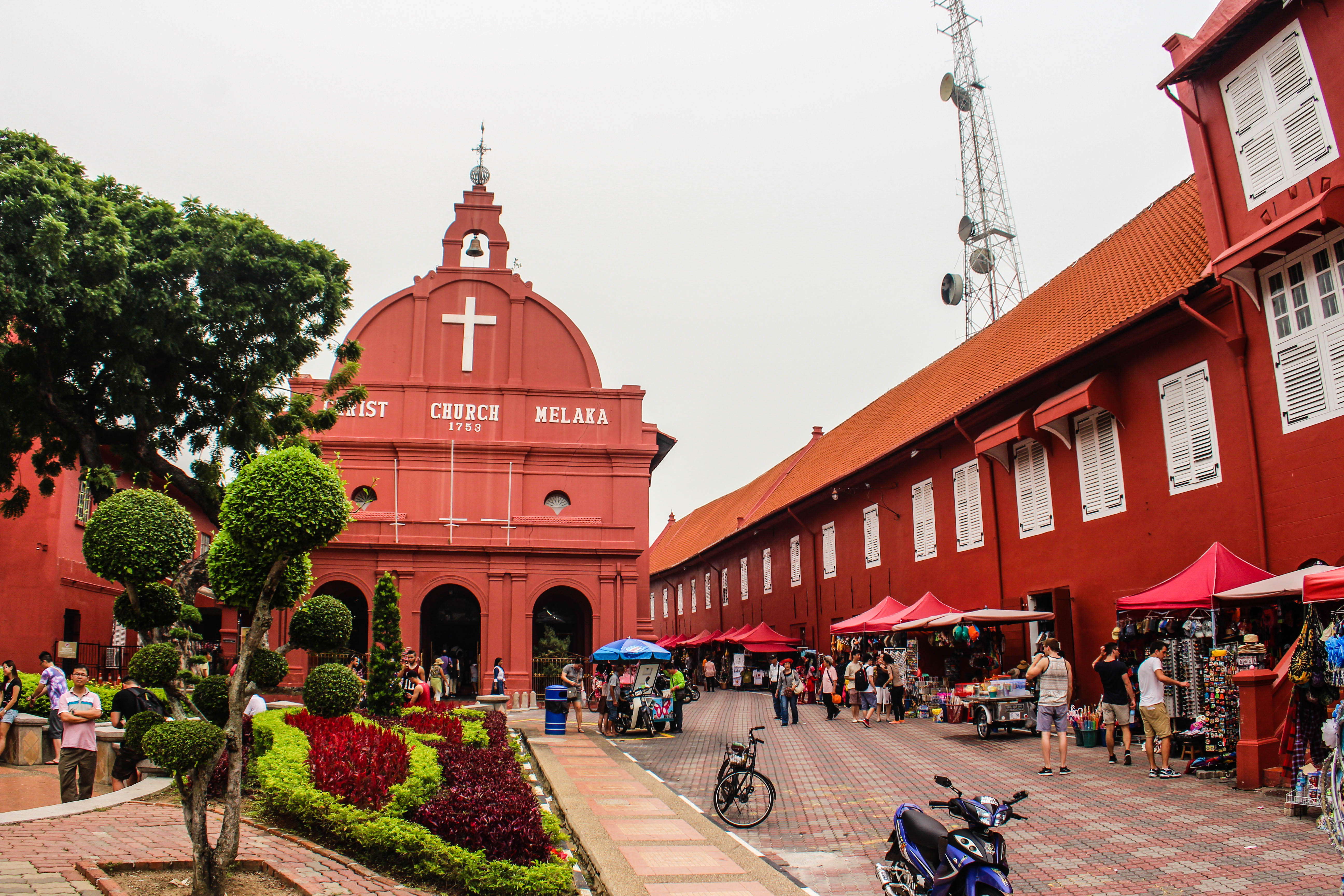 18th-Century Anglican church city of Malacca, Malaysia